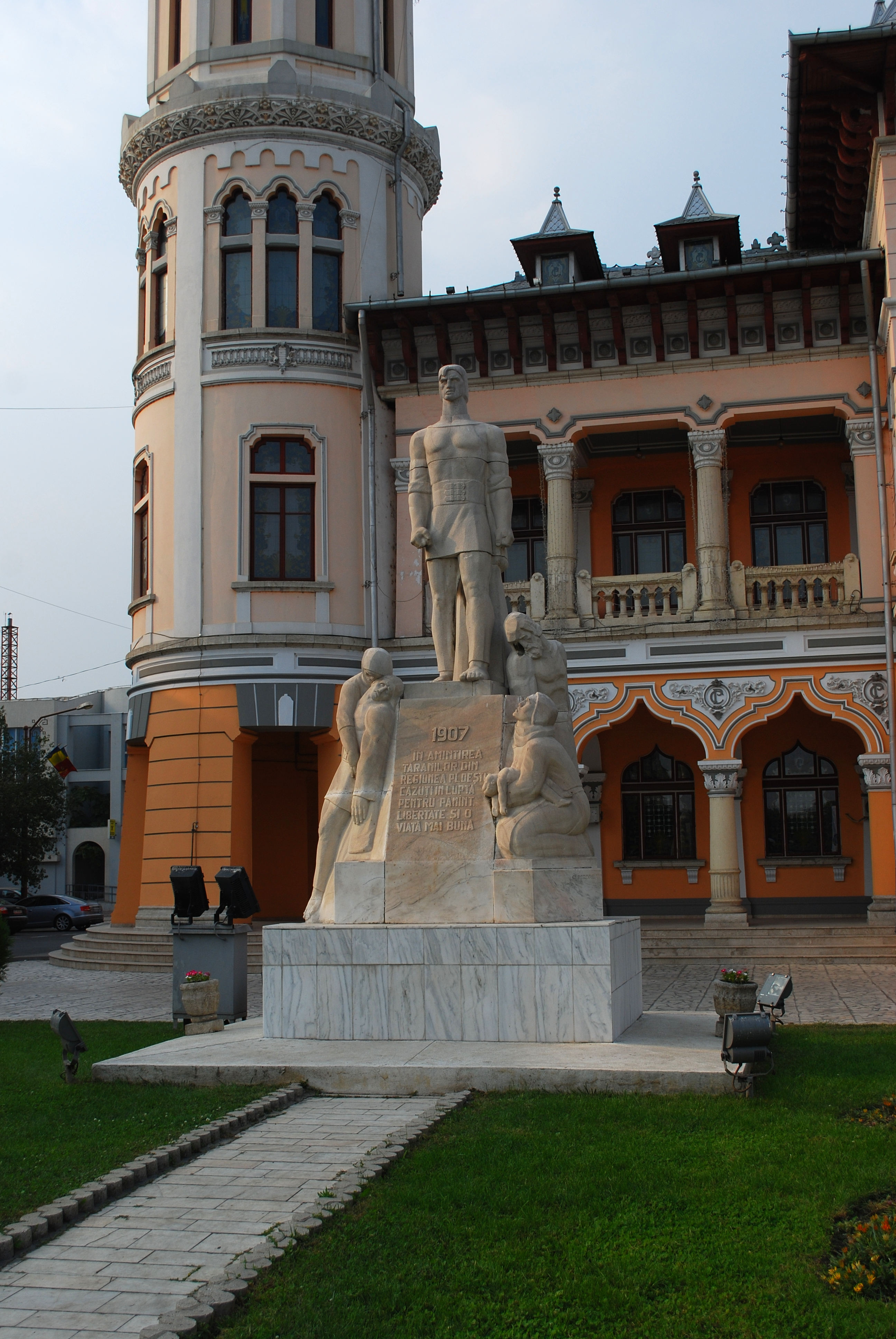 Monument to the 1907 peasants' uprising in Buzău, RomaniaRomână: Monumentul răscoalei din 1907 în Buzău, România